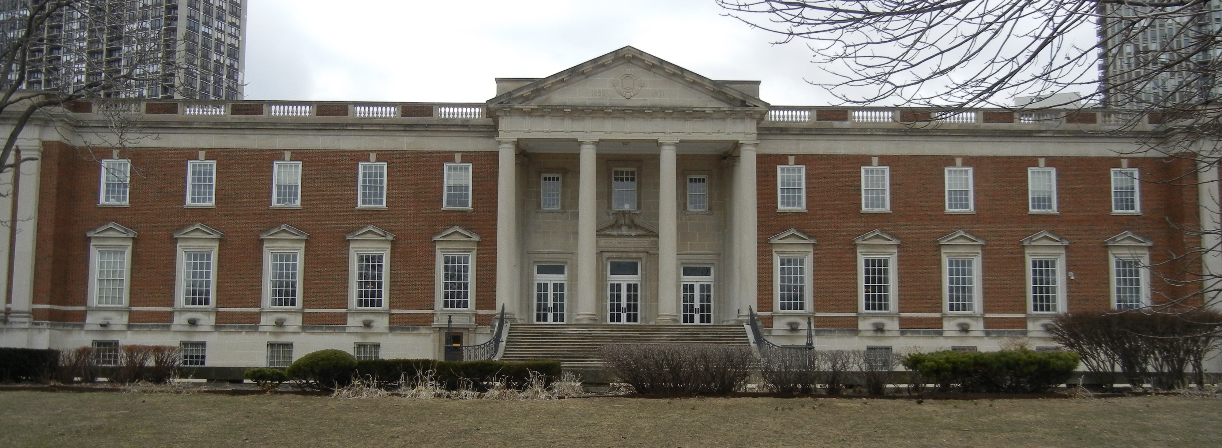 1932 Building of the Chicago History Museum in Chicago, Illinois